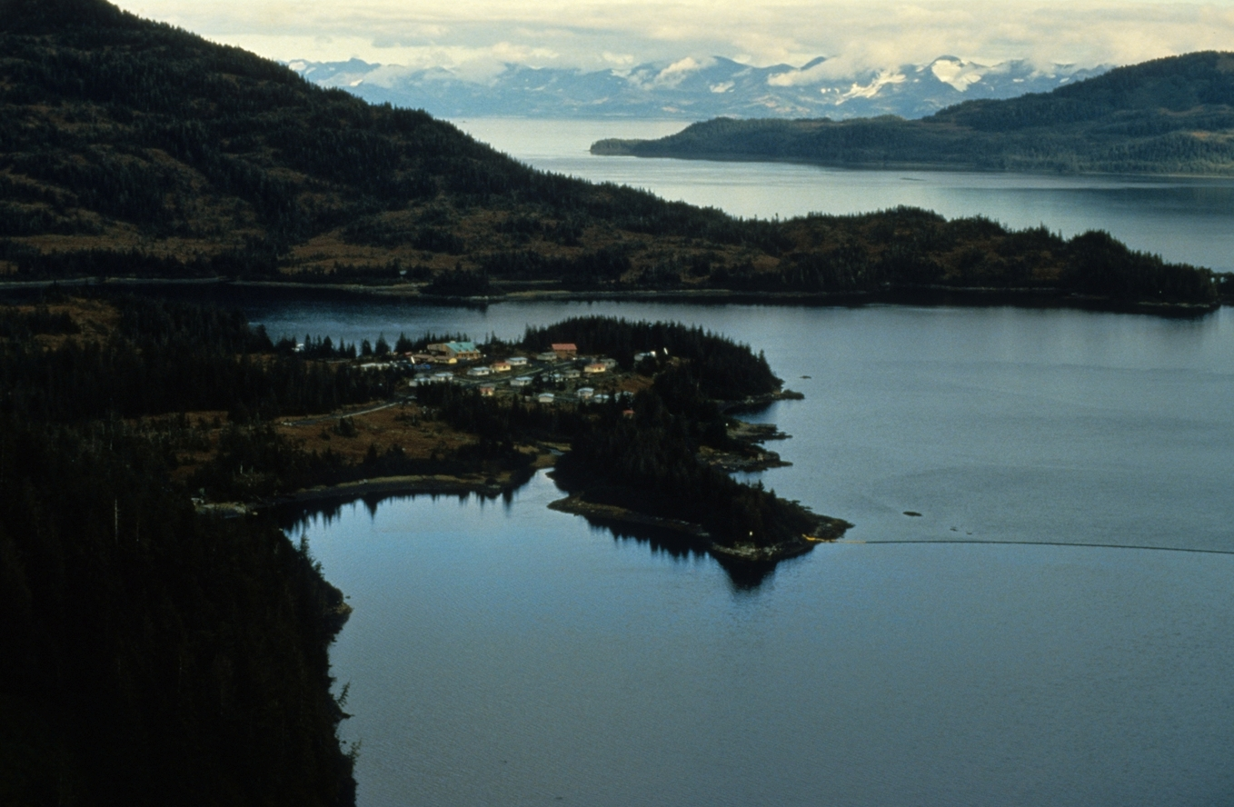 Further away aerial view of Chenega, Alaska as it appeared in 1989